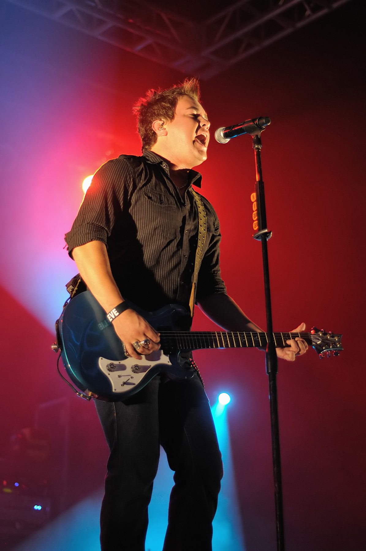 Mike Eli of the Eli Young Band at Concrete Street in Corpus Christi, TX on 08/15/09.